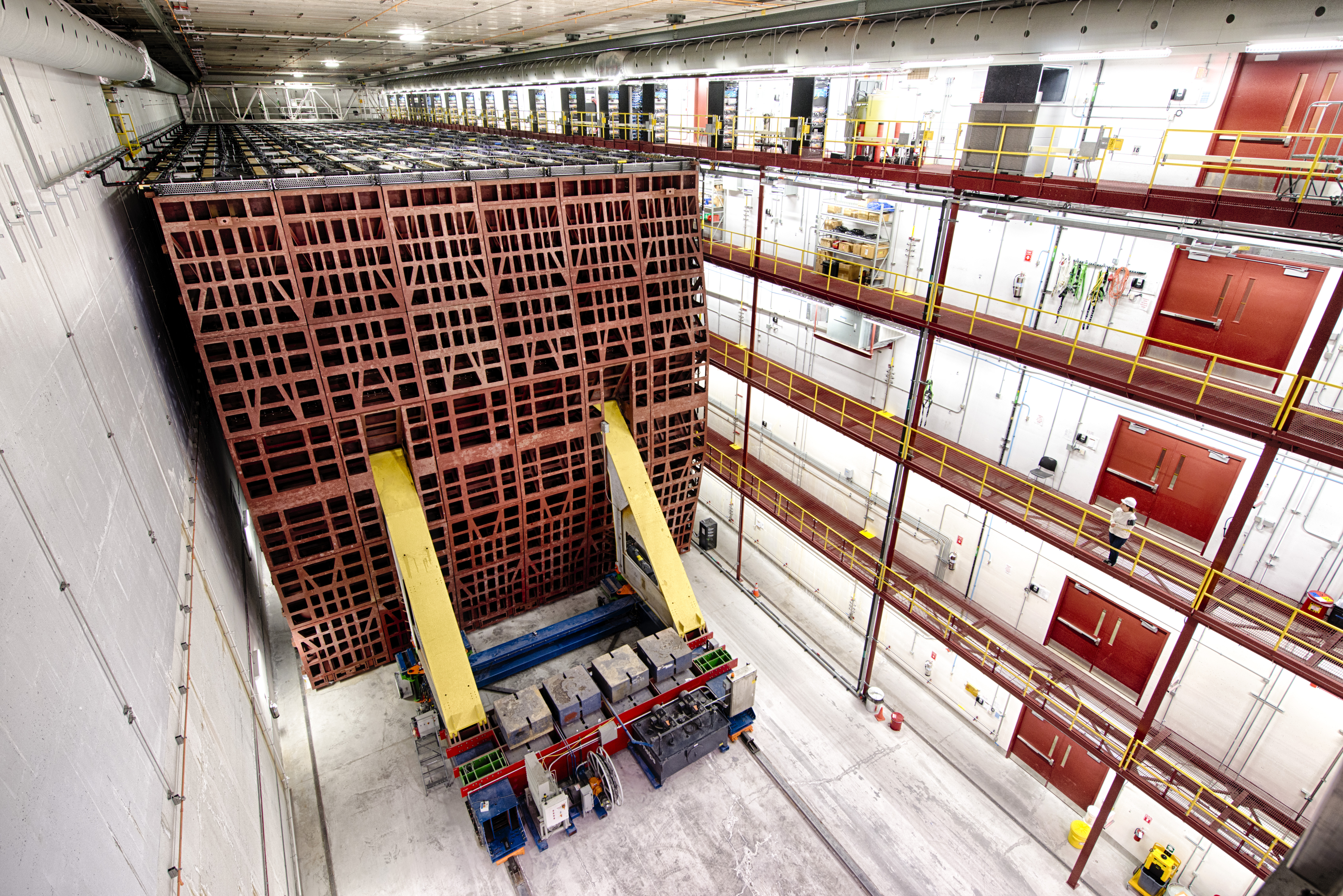 The 14kt NOvA Far Detector in Ash River, Minnesota with person for scale.